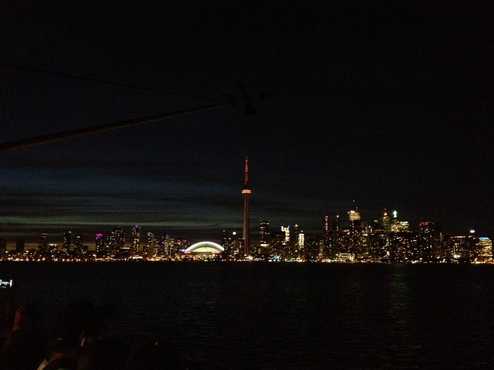 Toronto night view from toronto island